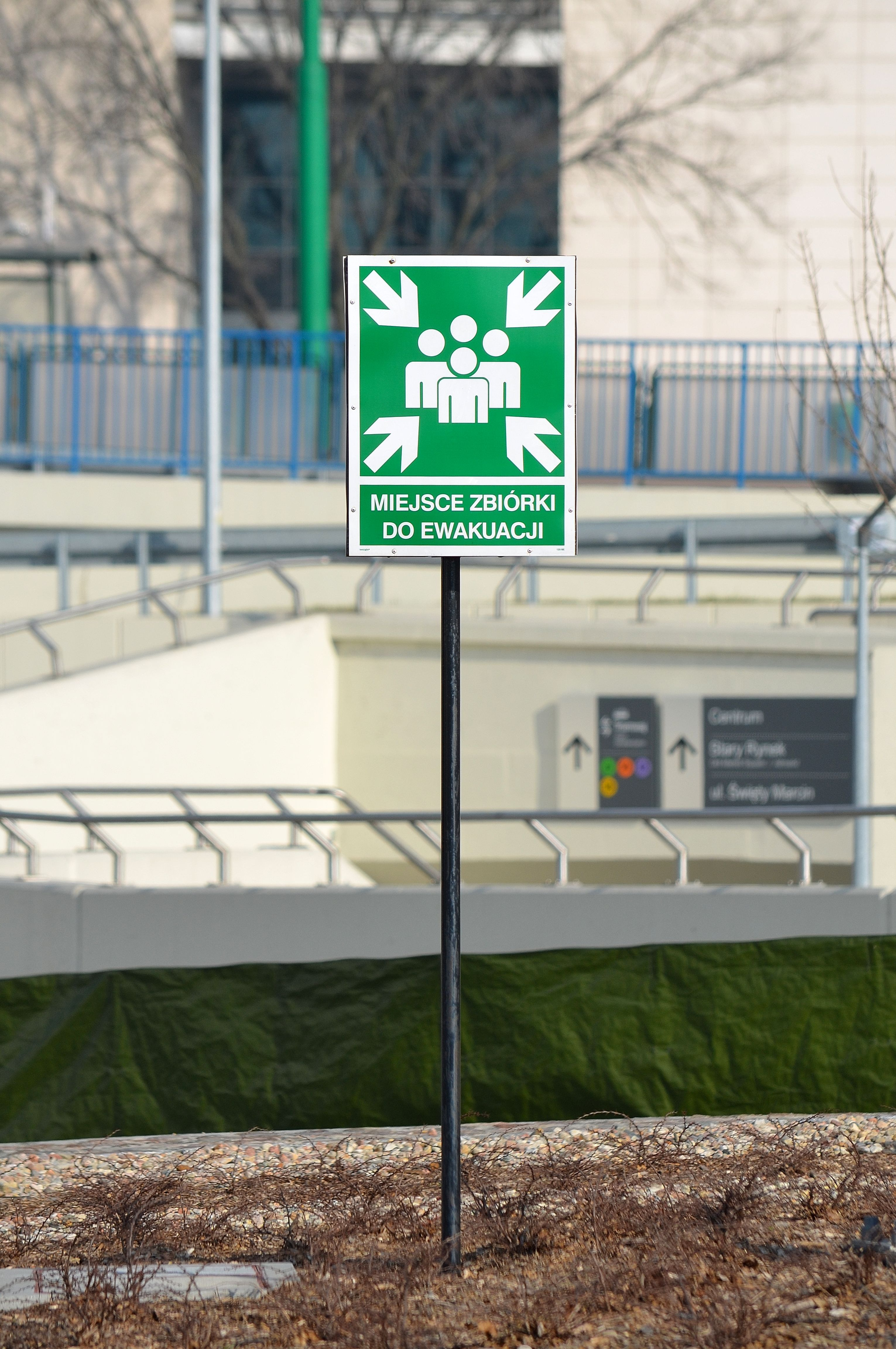 Evacuation assembly point in front of Poznań City Center